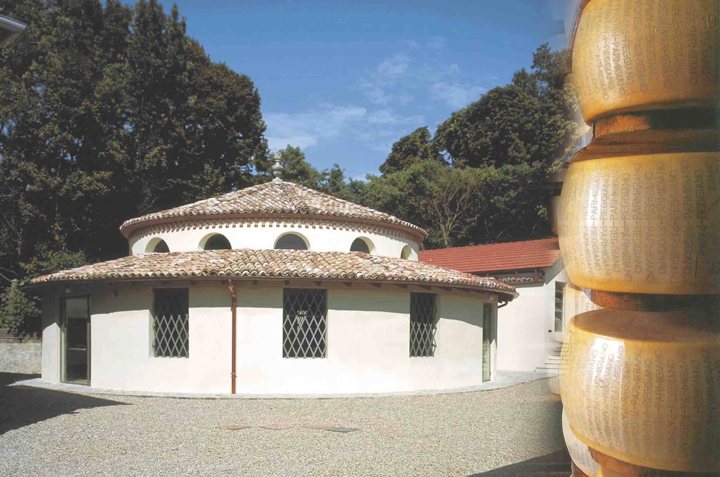 Museum of the Parmigiano Reggiano - Soragna (PR) - Italy